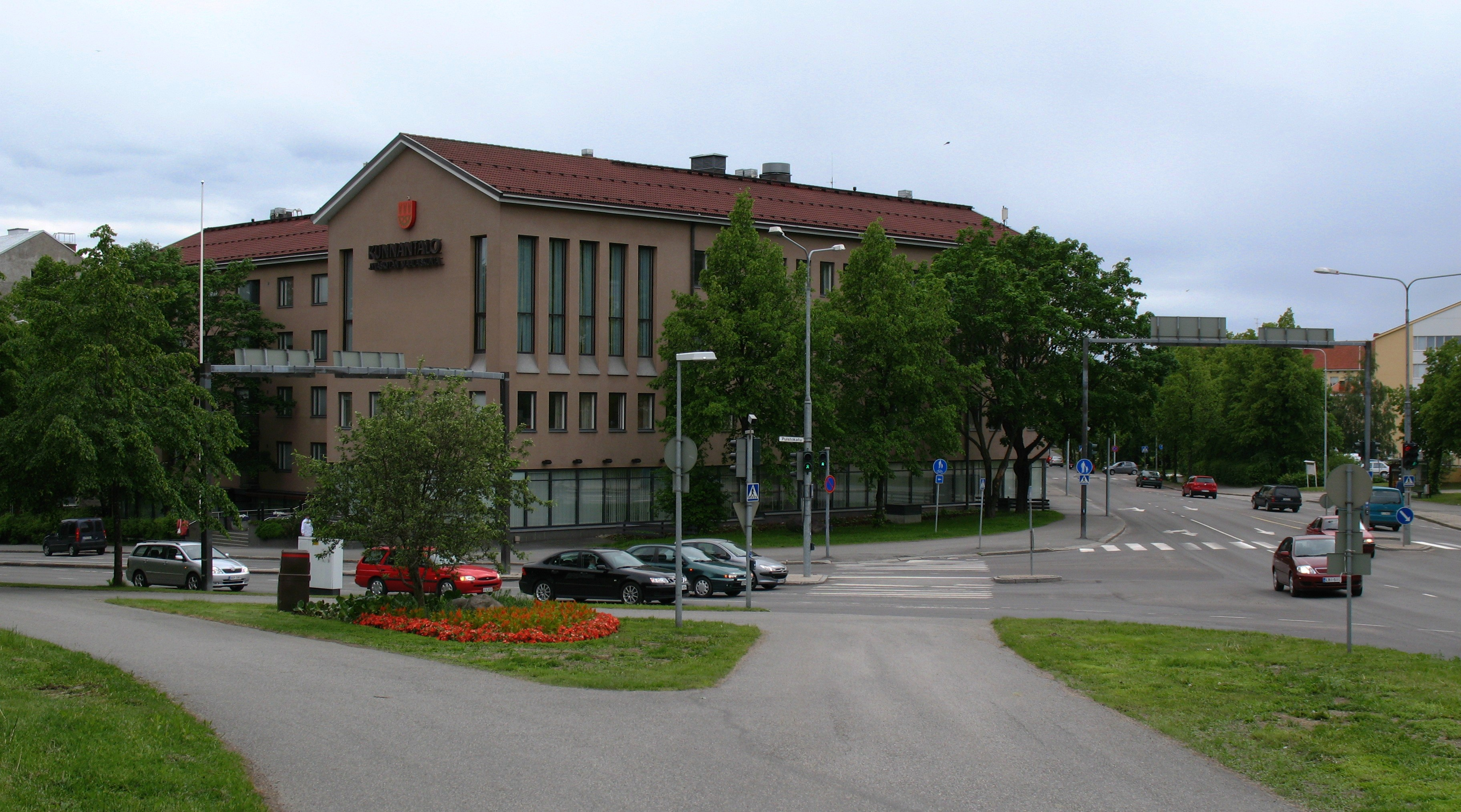 Rural Municipality of Jyväskylä town hall, Puistokatu street in Jyväskylä.